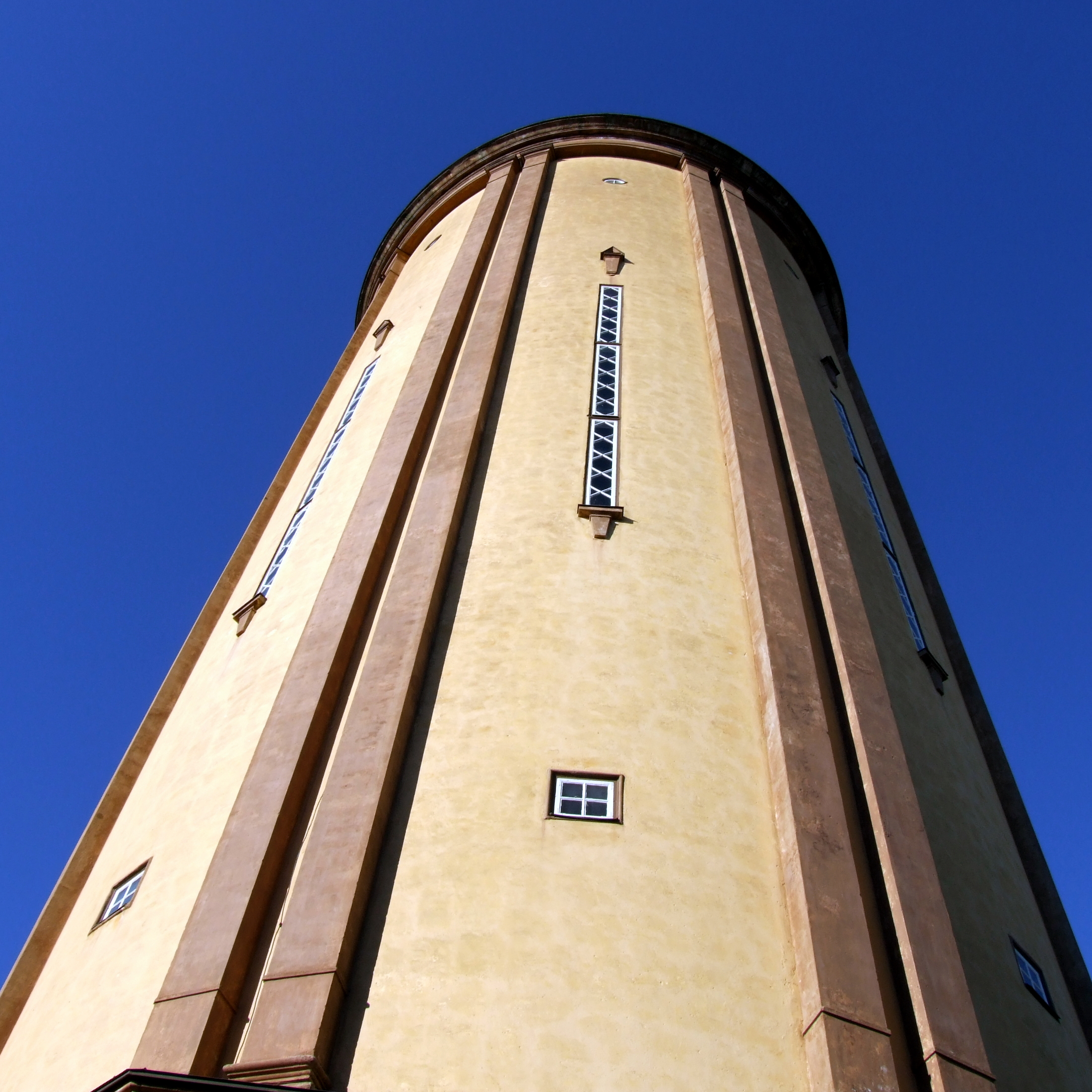 Intiö water tower has been designed by architect J.S. Sirén in 1925. The water tower was taken into use in 1927.